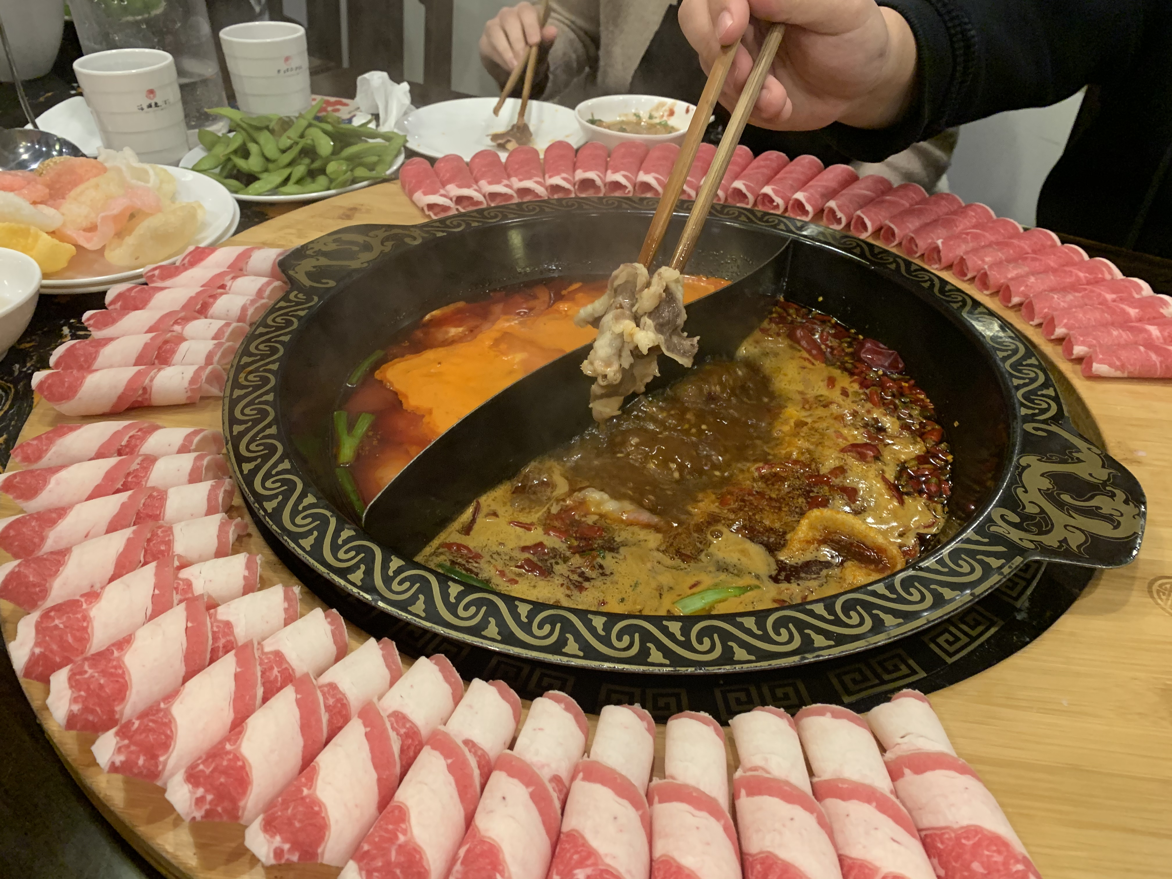 Hotpot